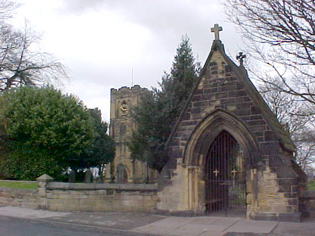 The lych gate of St Mary's Church in Middleton, Leeds, England.